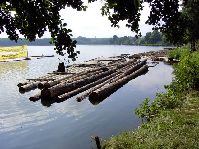 A Raft at Lychen, Landkreis Uckermark, Brandenburg, Germany.